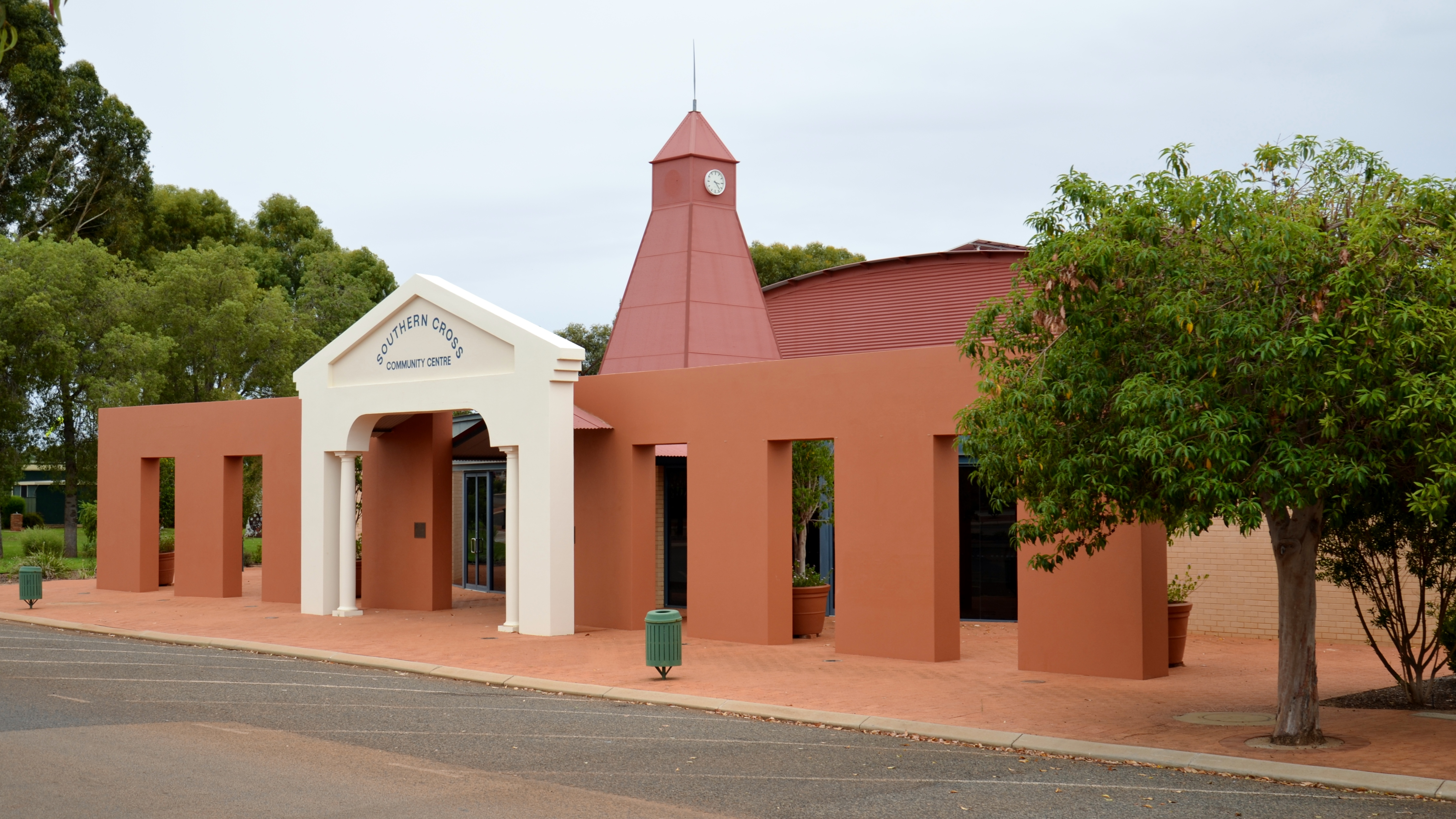 View of the Southern Cross Community Centre, Antares Street, Southern Cross, Western Australia.